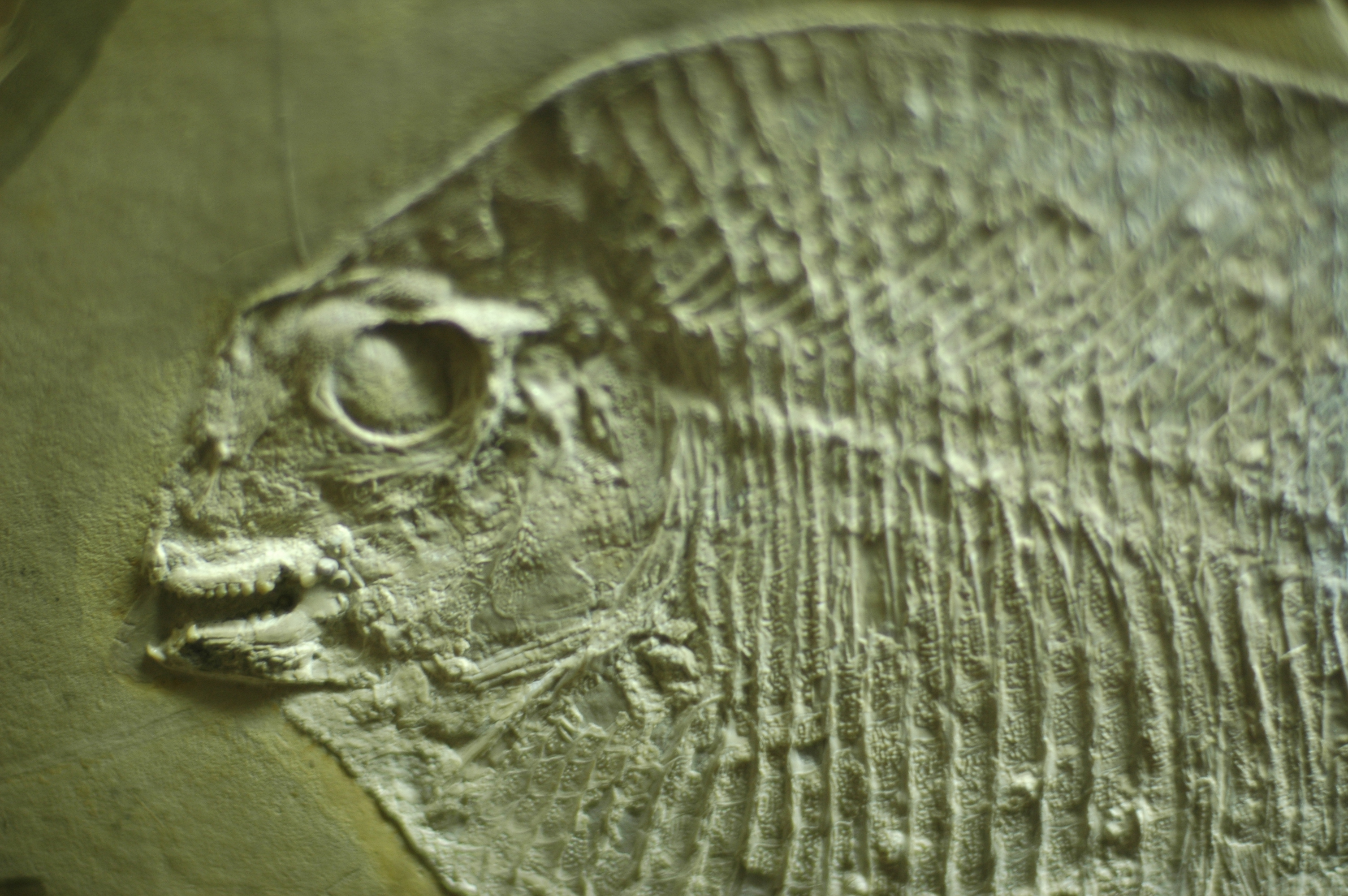 Microdon bernardi, 145 million years old.